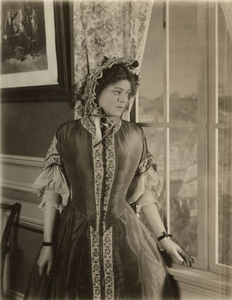 Ethel Barrymore, wearing a mid-19th century dress with basque waist and crinoline, stands by a window. She is costumed for the title role in the 1916 silent film "The Awakening of Helena Richie." On the reverse of the print, a caption in pencil reads: "Helena decides to go to the village in search of Pryor's letter."